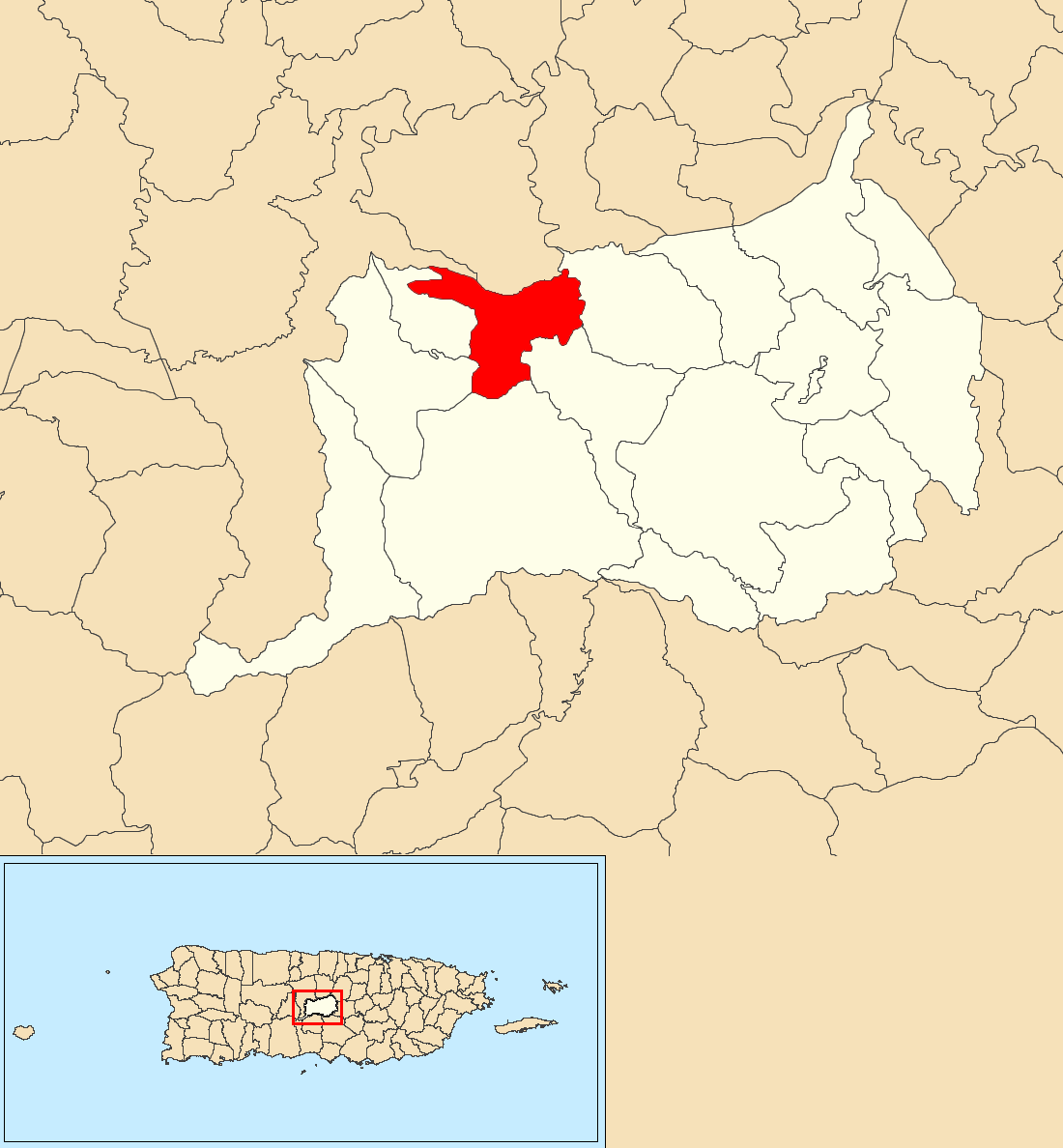 Damián Abajo, Orocovis, Puerto Rico locator map